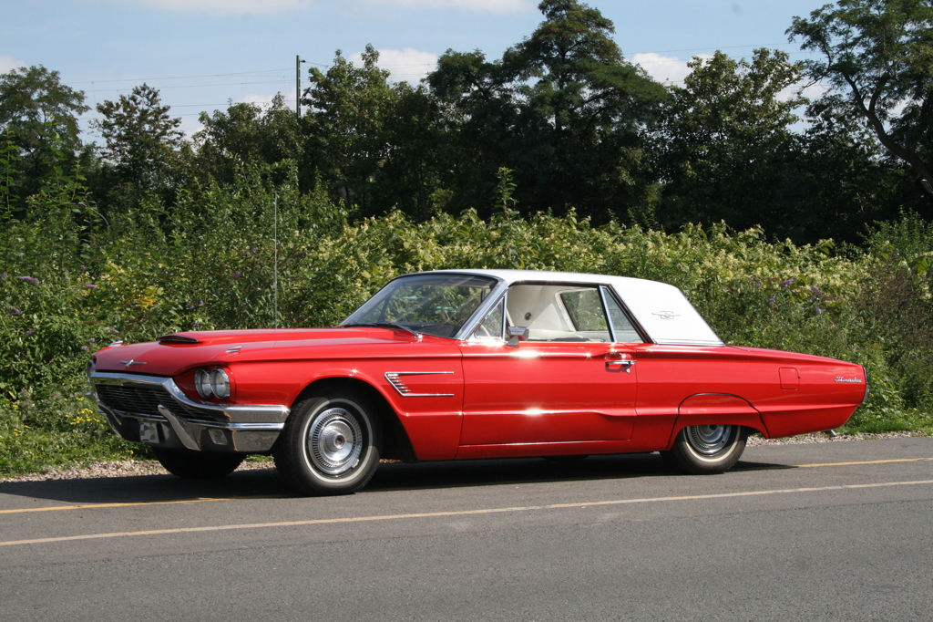 1965 Ford Thunderbird Hardtop Coupé, side view